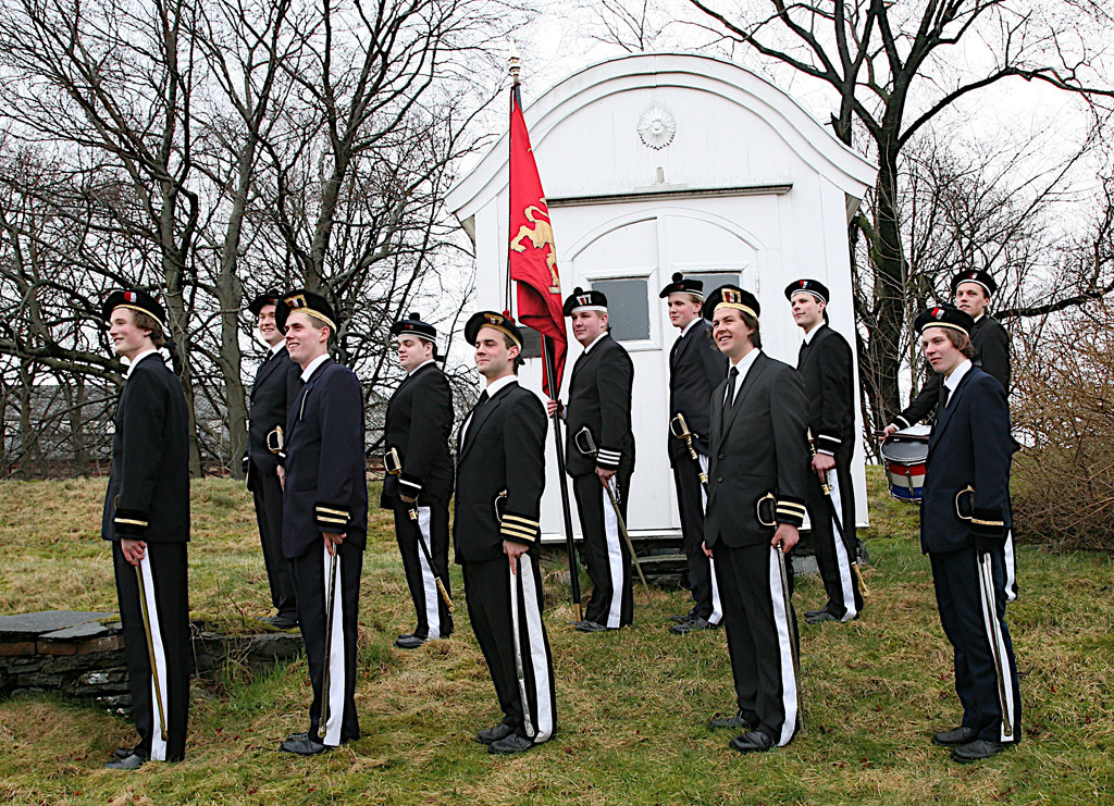 Nordnæs Bataillon